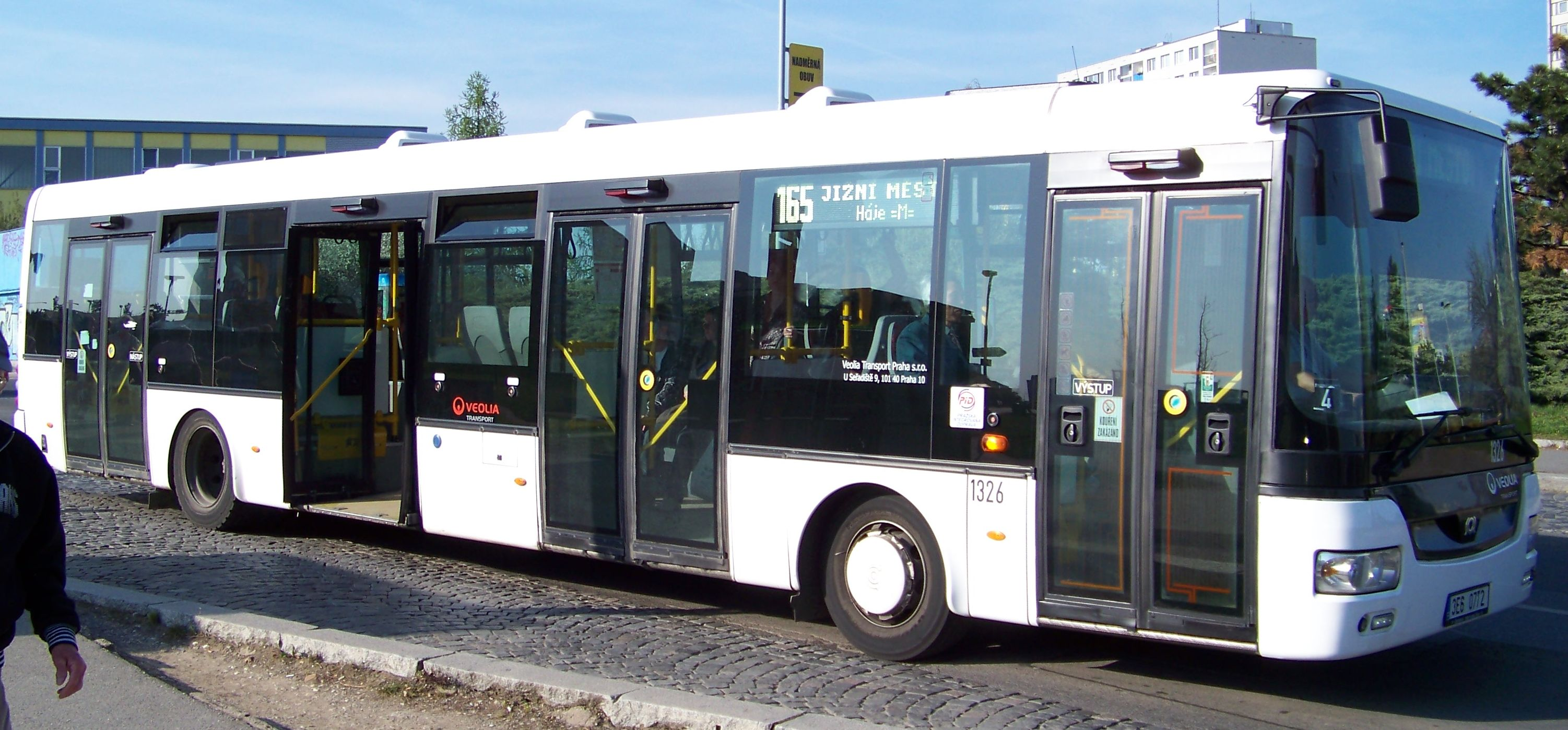 Háje, Prague, the Czech Republic. SOR NB 12 bus.